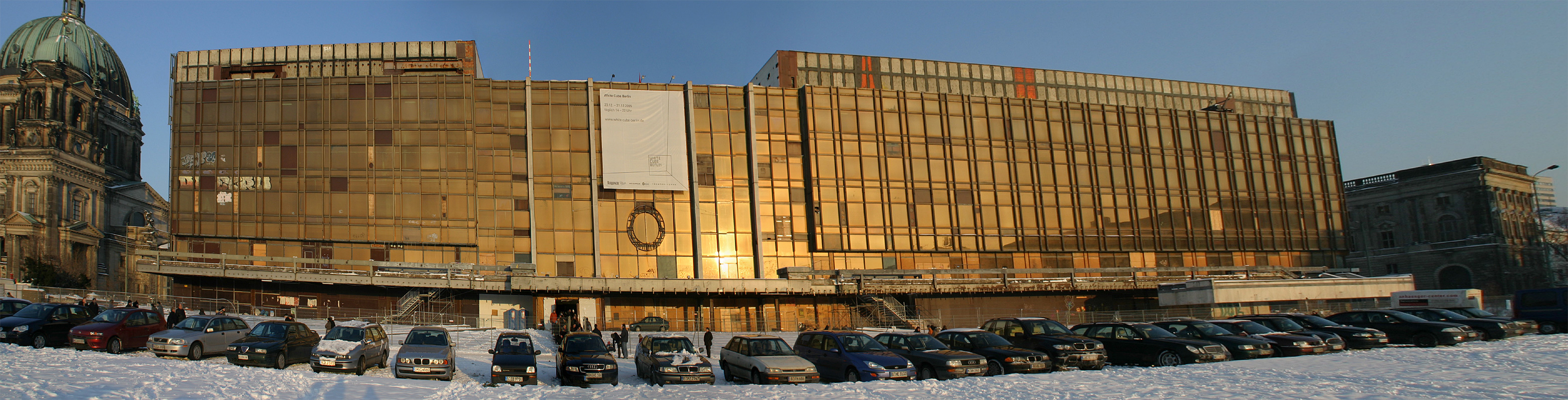 The Palace of the Republic in Berlin (Germany).